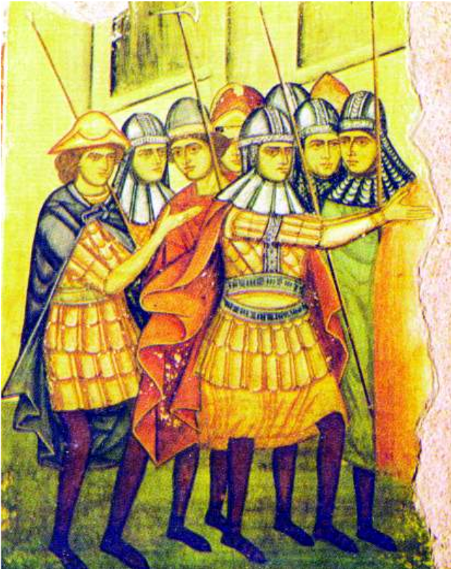 Moldavian soldiers from the XV century. (Părhăuţi Church)